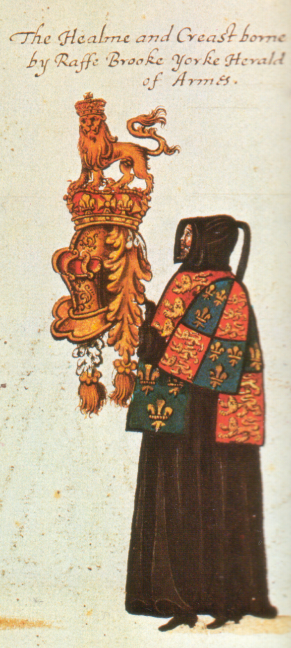 Funeral procession of Elizabeth I of England, 1603. Ralph Brooke (1553-1625), York Herald. Inscription: "The Helme and Creaste borne by Raffe Brooke Yorke Herald of Armes."